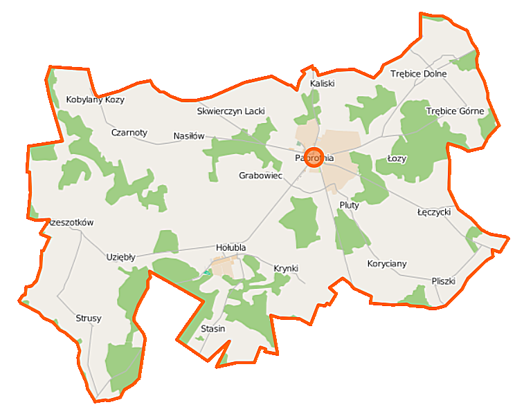 Map of Gmina Paprotnia, Poland This map of Paprotnia (gmina) was created from OpenStreetMap project data, collected by the community. This map may be incomplete, and may contain errors. Don't rely solely on it for navigation. Border coordinates52.338322.3431←↕→22.550552.2366